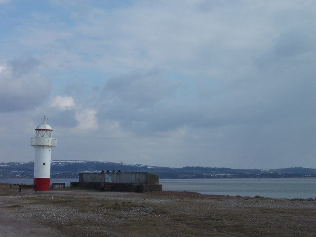 Lighthouse at edge of Hodbarrow lagoon This photo is taken looking back across the Duddon estuary to the Furness peninsula beyond. The lighthouse is on the Cumbria Coastal Way